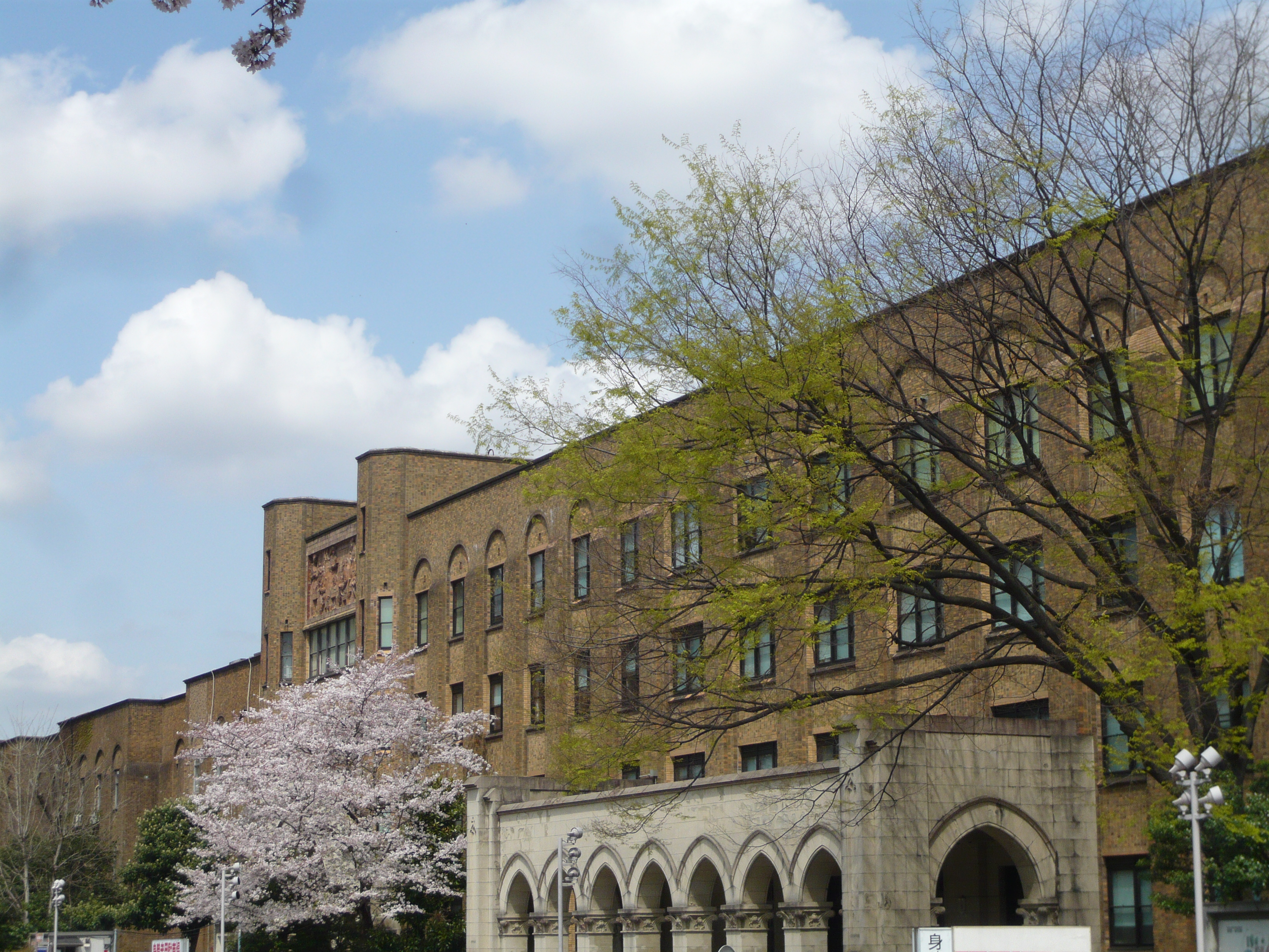 University of Tokyo's hospital on the Hongo campus, Japan.